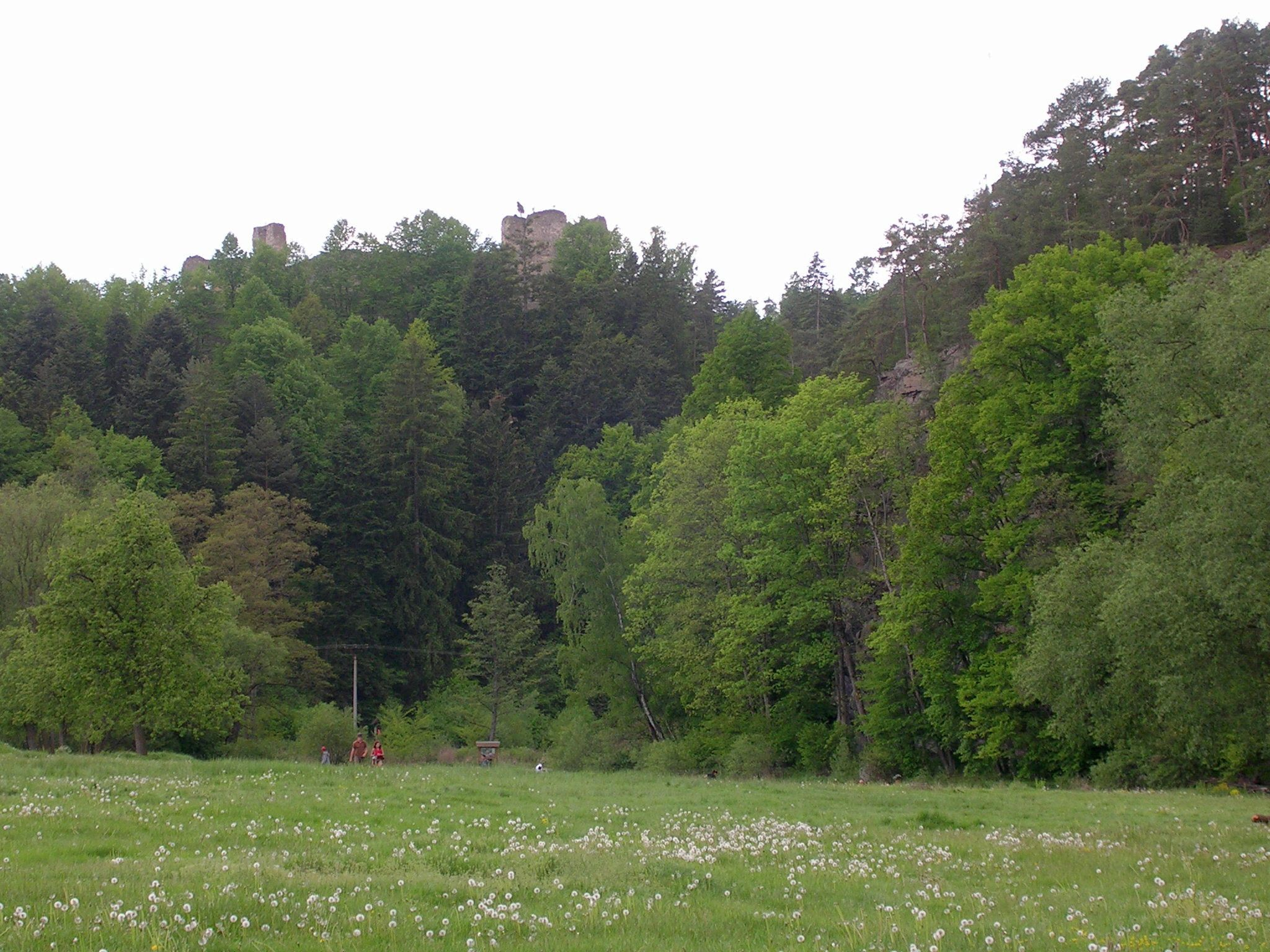 Holubov-Podhradský and Křemže-Dívčí kámen, Český Krumlov District, South Bohemian Region, the Czech Republic.